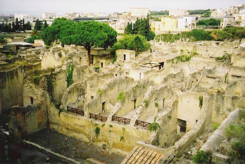 Old city of Herculaneum